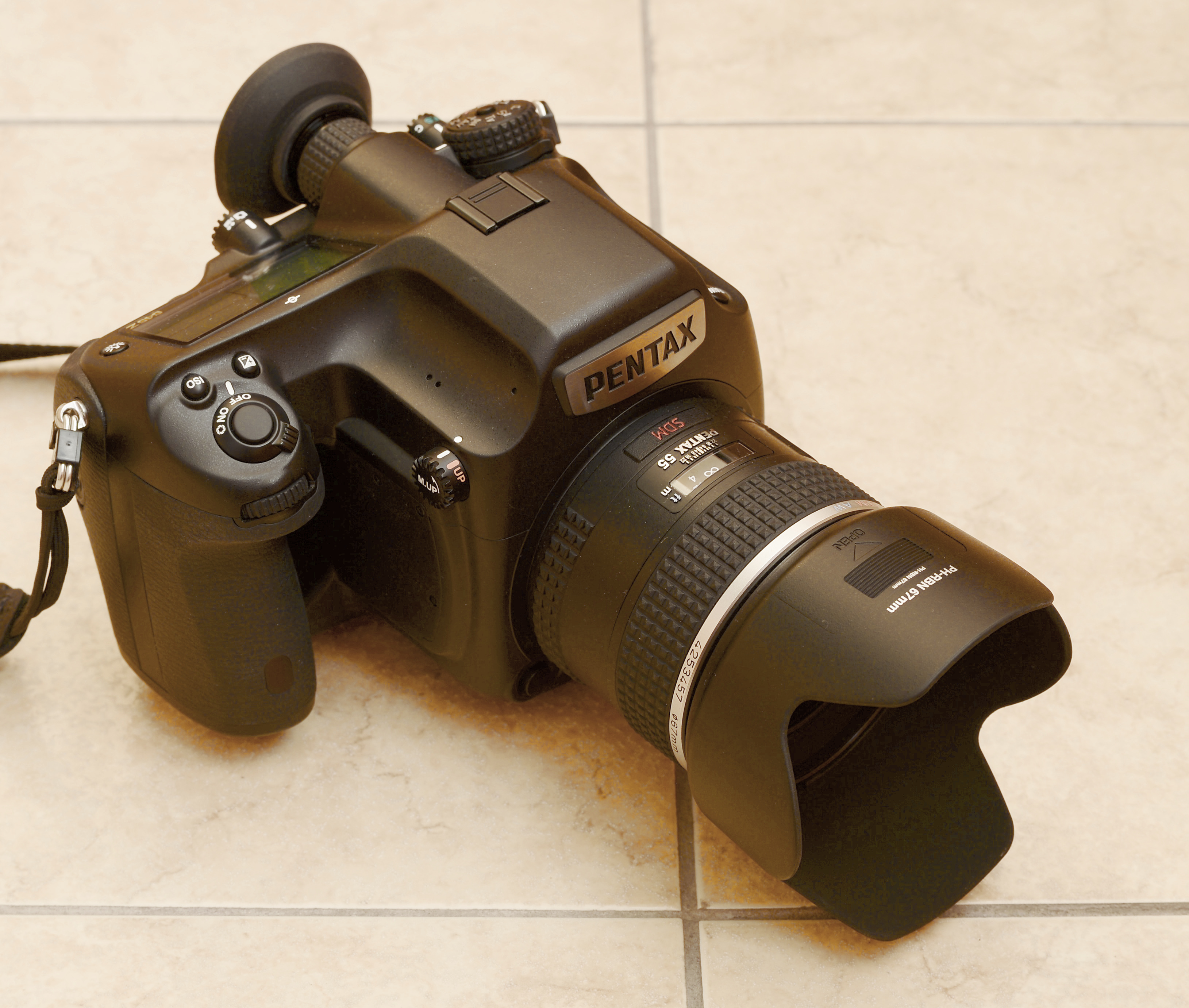 Pentax 645Z - DFA 645 55mm f/2.8